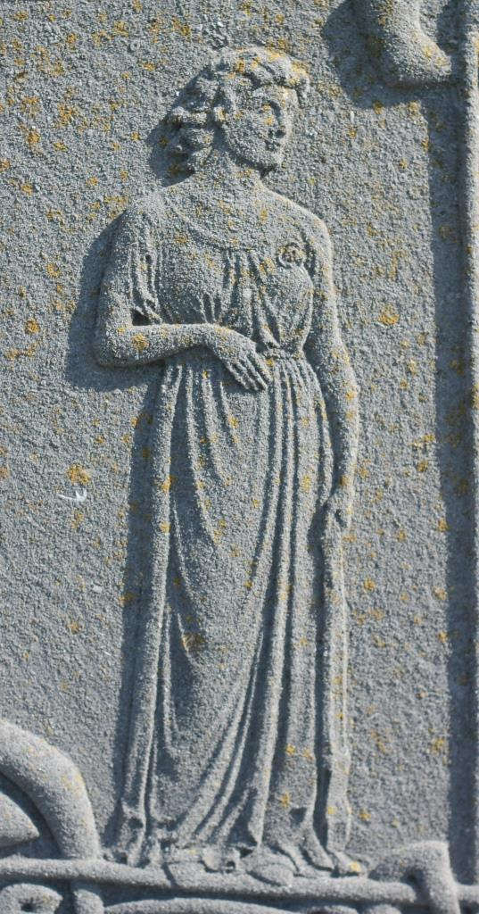 Mary O'Neill's character on Hall Caine's gravestone